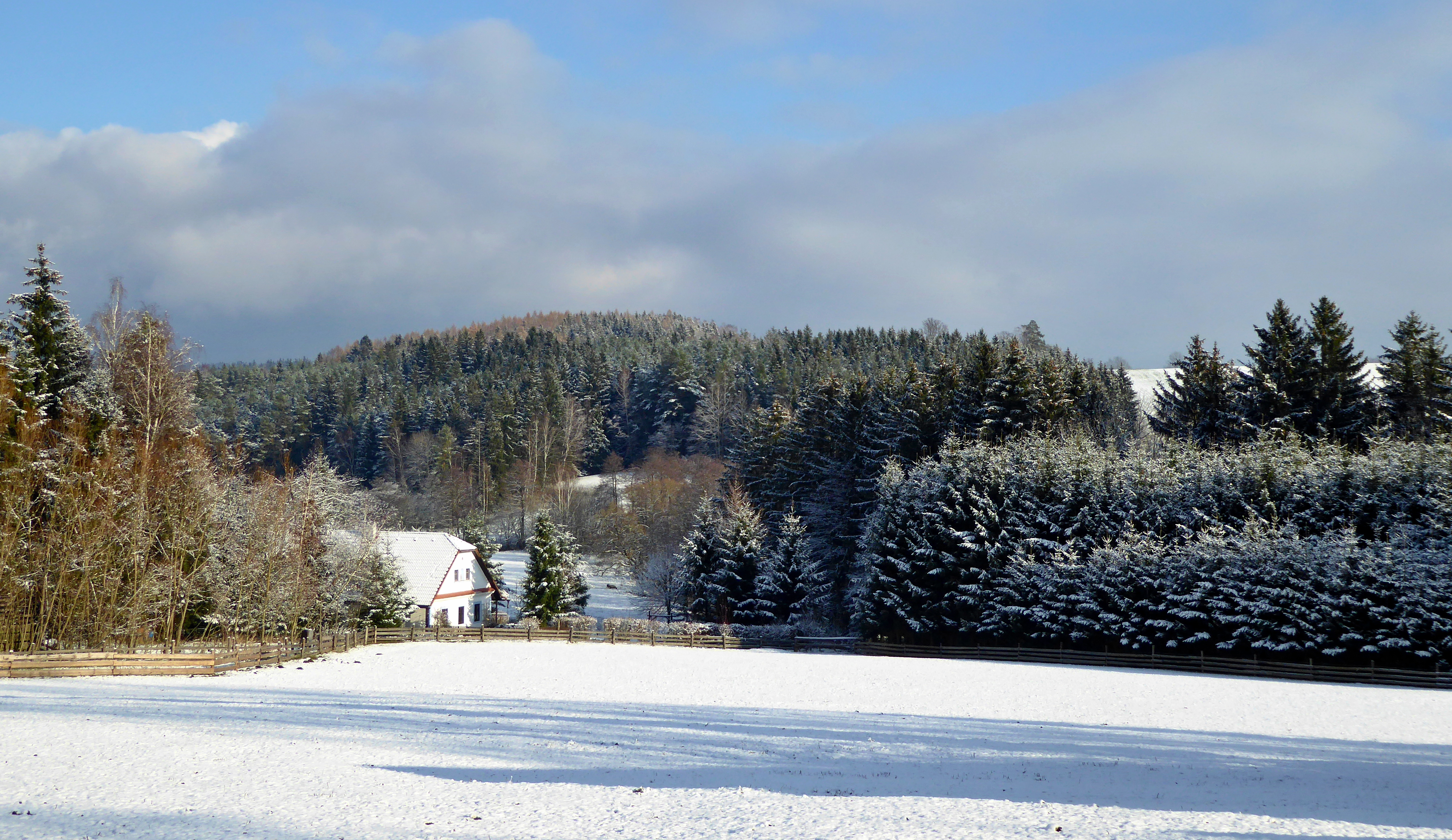 The landscape of the Iron Mountains, a winter under Veselý Kopec (borderline of geomorphological districts Kameničská vrchovina and Stružinecká pahorkatina). Veselý Kopec is locality of small hamlet on the part of the cadastral territory Dřevíkov, with the range 535-579 m above sea level on the eastern to southeast slope of the hill Na Veselém Kopci (579 m). It lies above the left bank of the river Chrudimka, in the geomorphological district with name Stružinecká knoll land. Trough of meandering river forms the boundary between geomorphological districts. Forested slopes above the right bank of the river belongs to the Kameničská Highlands, in terms of orography the highest landscape area in the Iron Mountains. In the part of small hamlet Veselý Kopec is a exposition of folk architecture and technicals buildings with name Open air Museum Vysočina (formerly named Set of Folk Buildings Vysočina). Photo-location: Czechia, Pardubice Region, village Vysočina, Veselý Kopec – small hamlet and exposition of Open air Museum Vysočina (formerly named Set of Folk Buildings Vysočina).